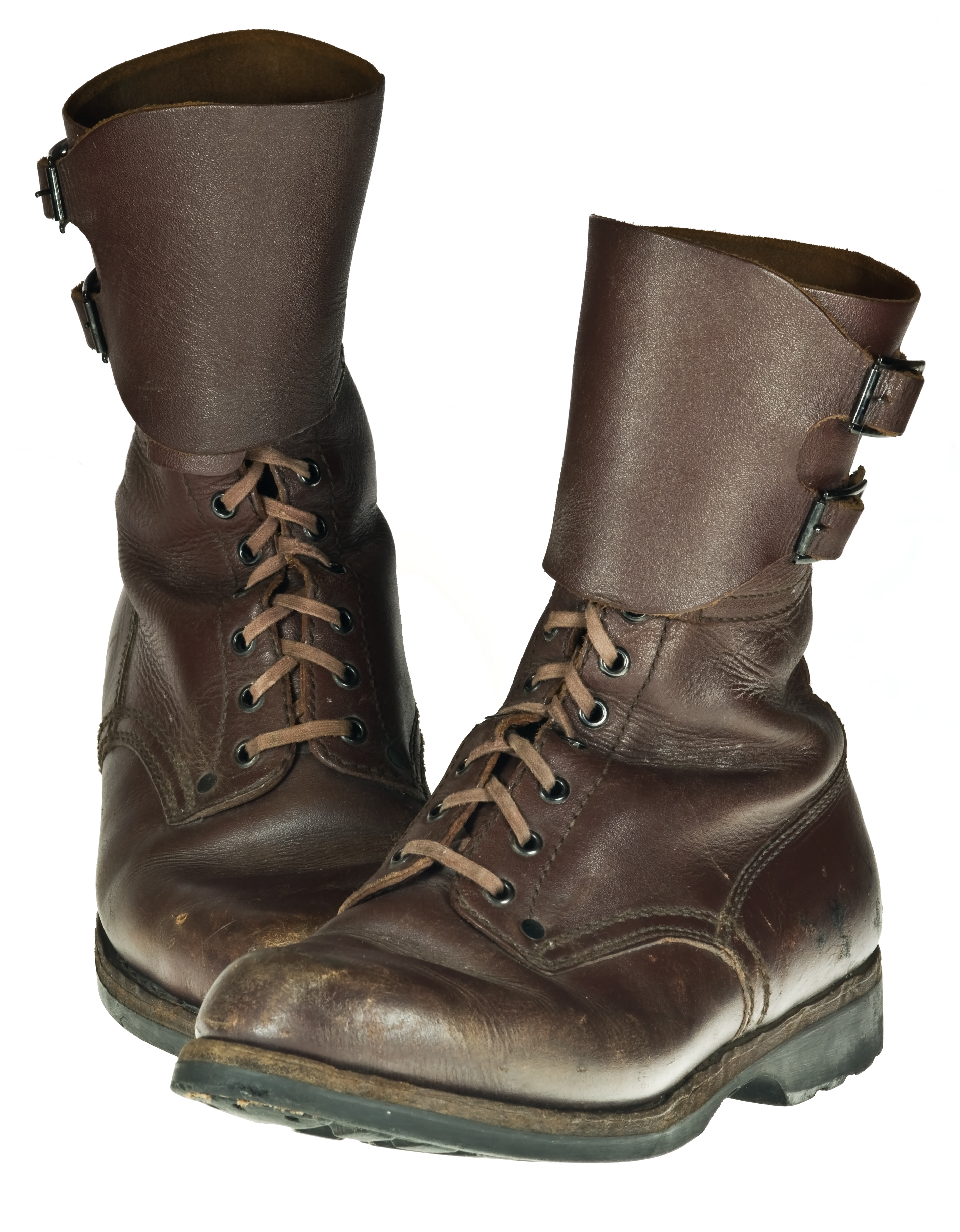 Combat boots used in Polish Army up to the 1990s.